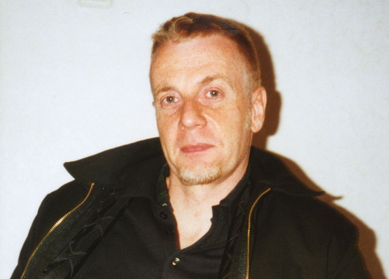 German director Jochen Hick 2004 on a film festival at Perm, Russia